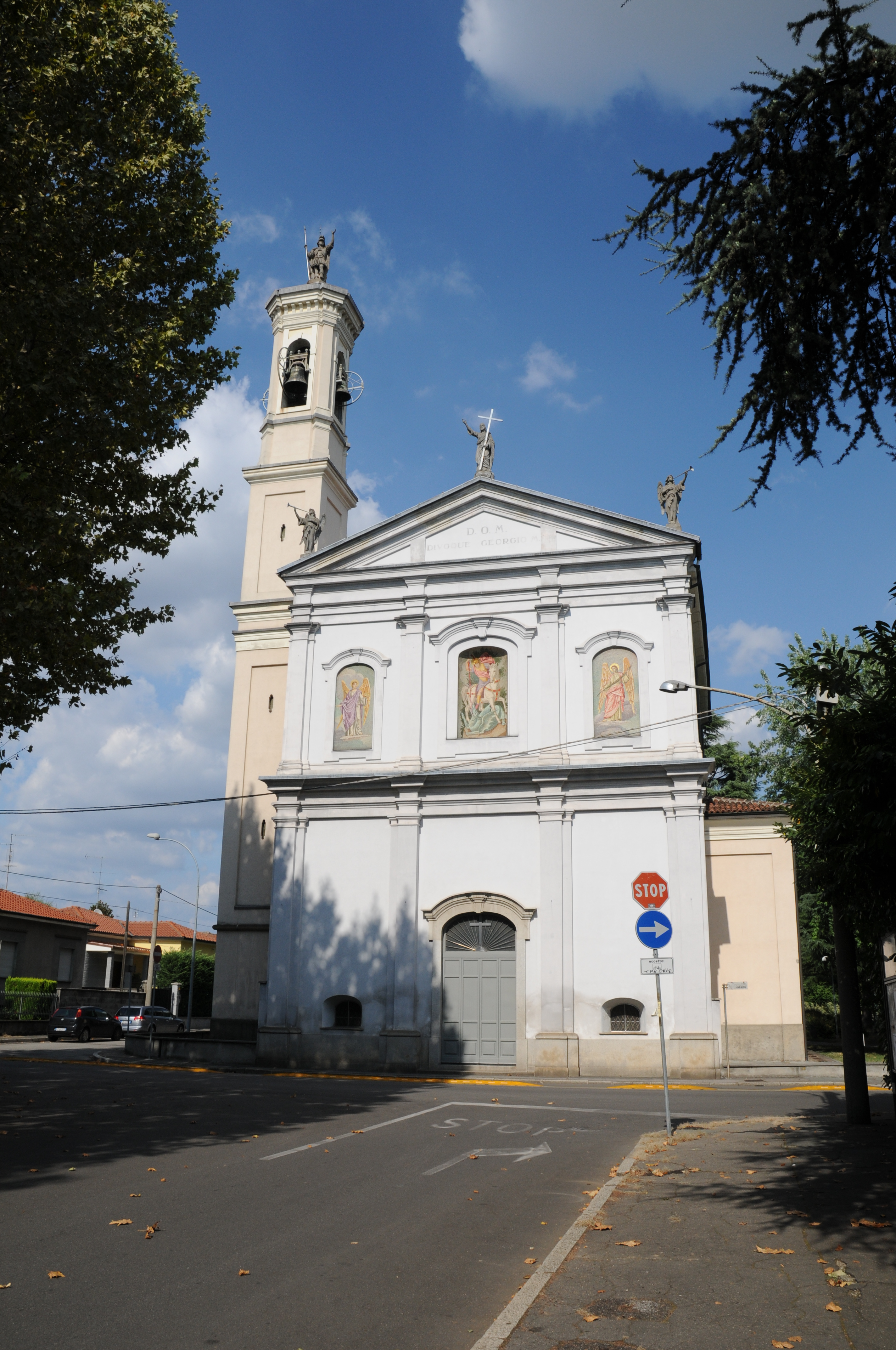 Crucifix Church in San Giorgio su Legnano (Italy)